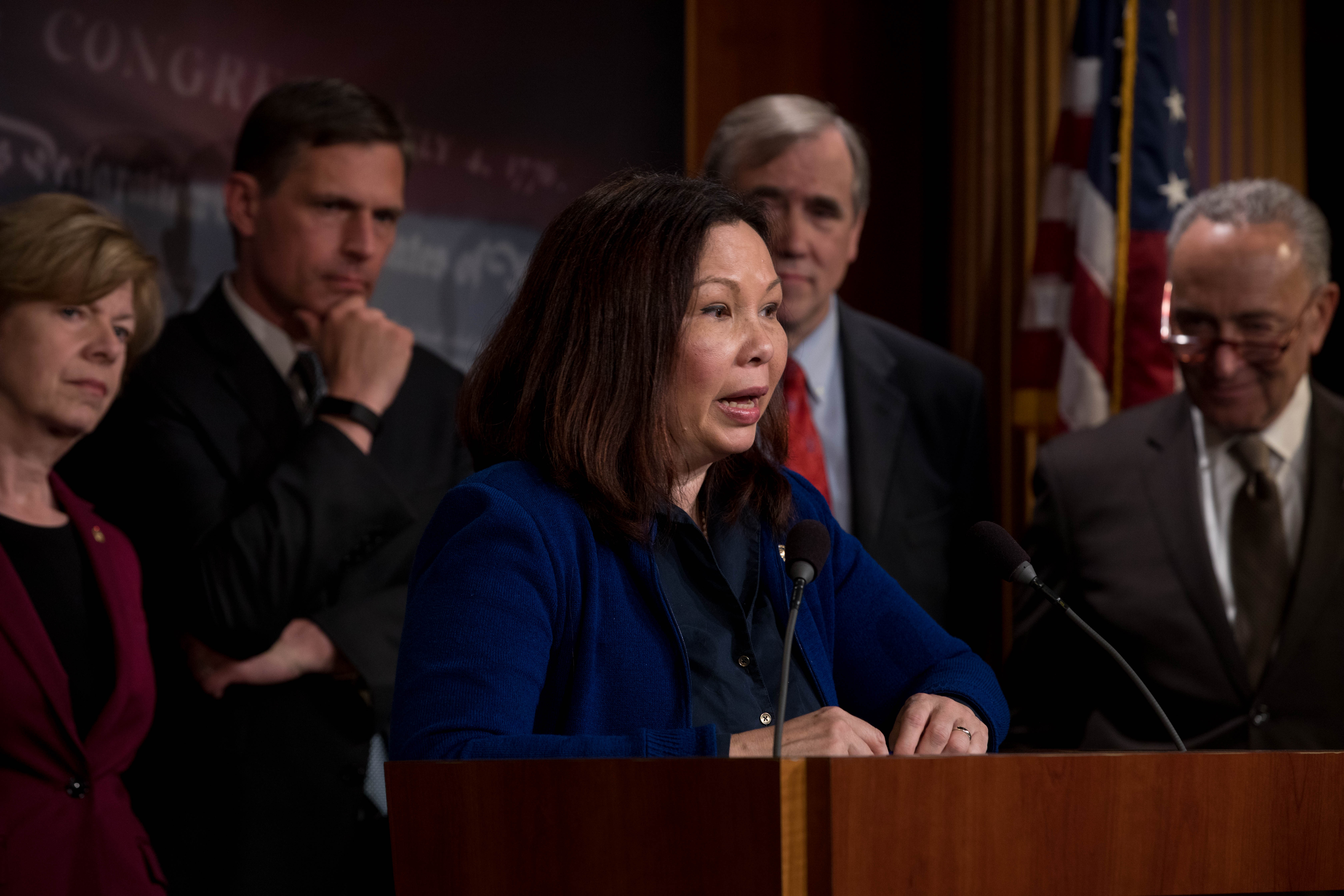 ClimateChange_cam1_032719 (39 of 47)